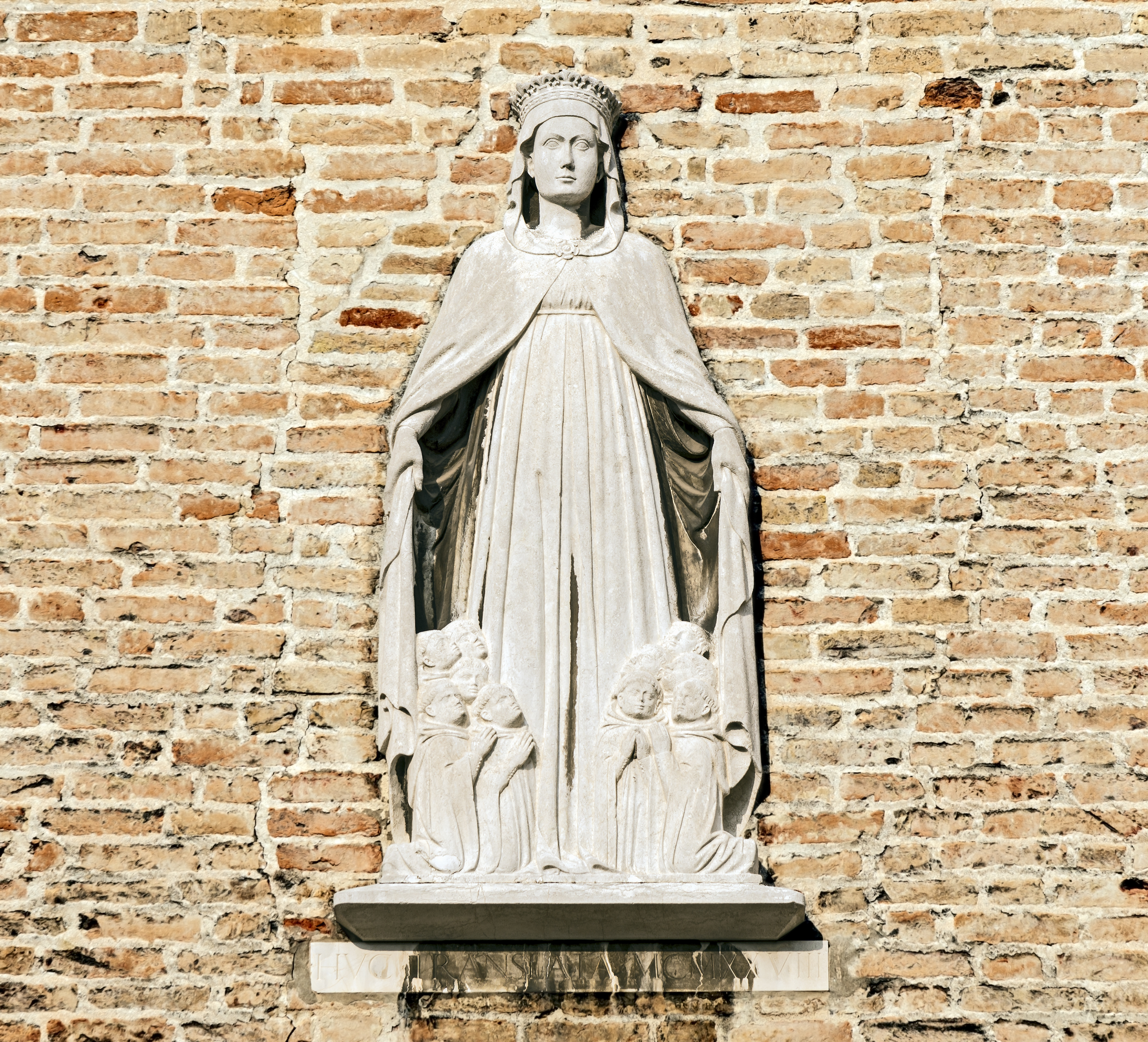 The 14th century Madonna della Misericordia on the facade of the 15th century "Scoleta dei calegheri" (Shoemakers' "little guildhall"), in Campo San Tomà square Venice.